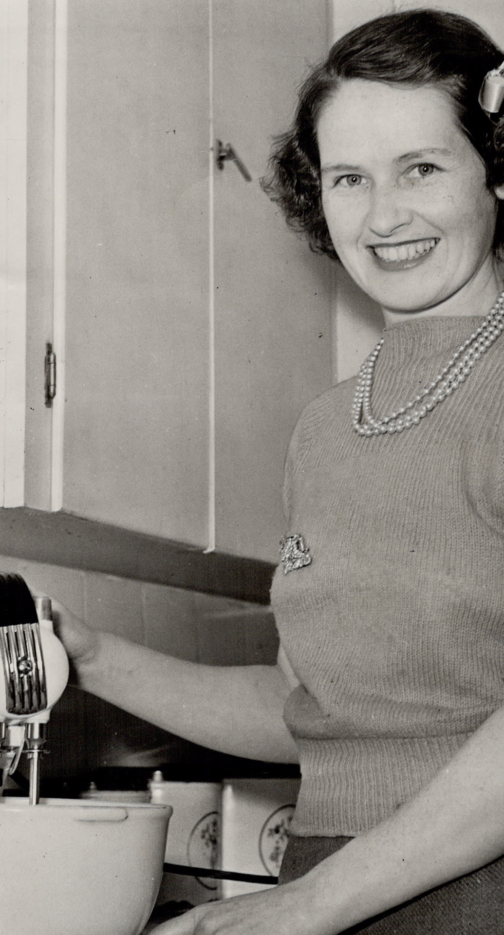 Champion Skater; and tops at golf; Mrs. E. H. Gooderham (Cecil Eustace Smith) maintains she is but an amateur in cookery. But there are no complaints against products of her modern black and white kitchen